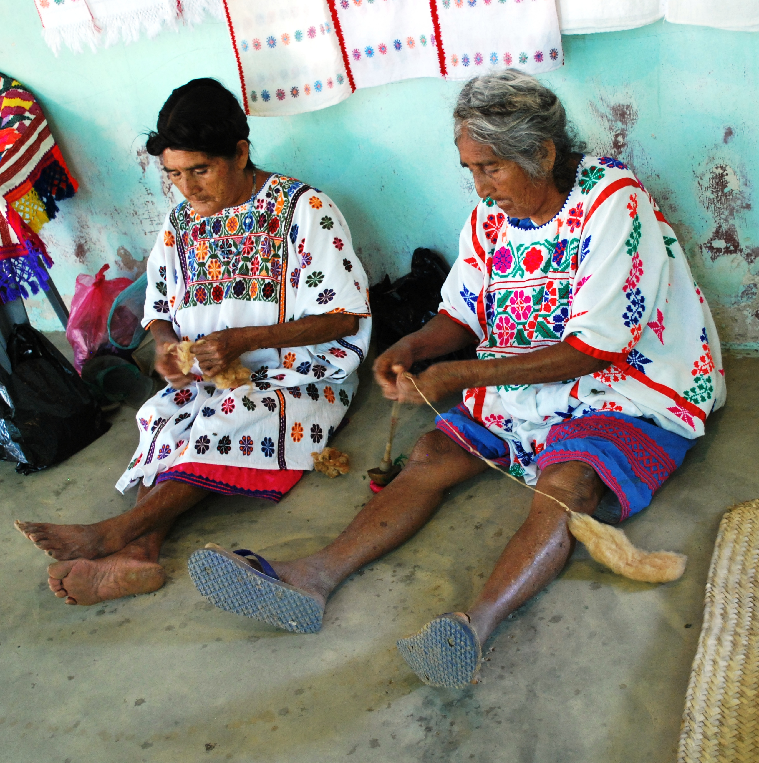 Women separating fibers and spinning at the Xochistlahuaca Community Museum